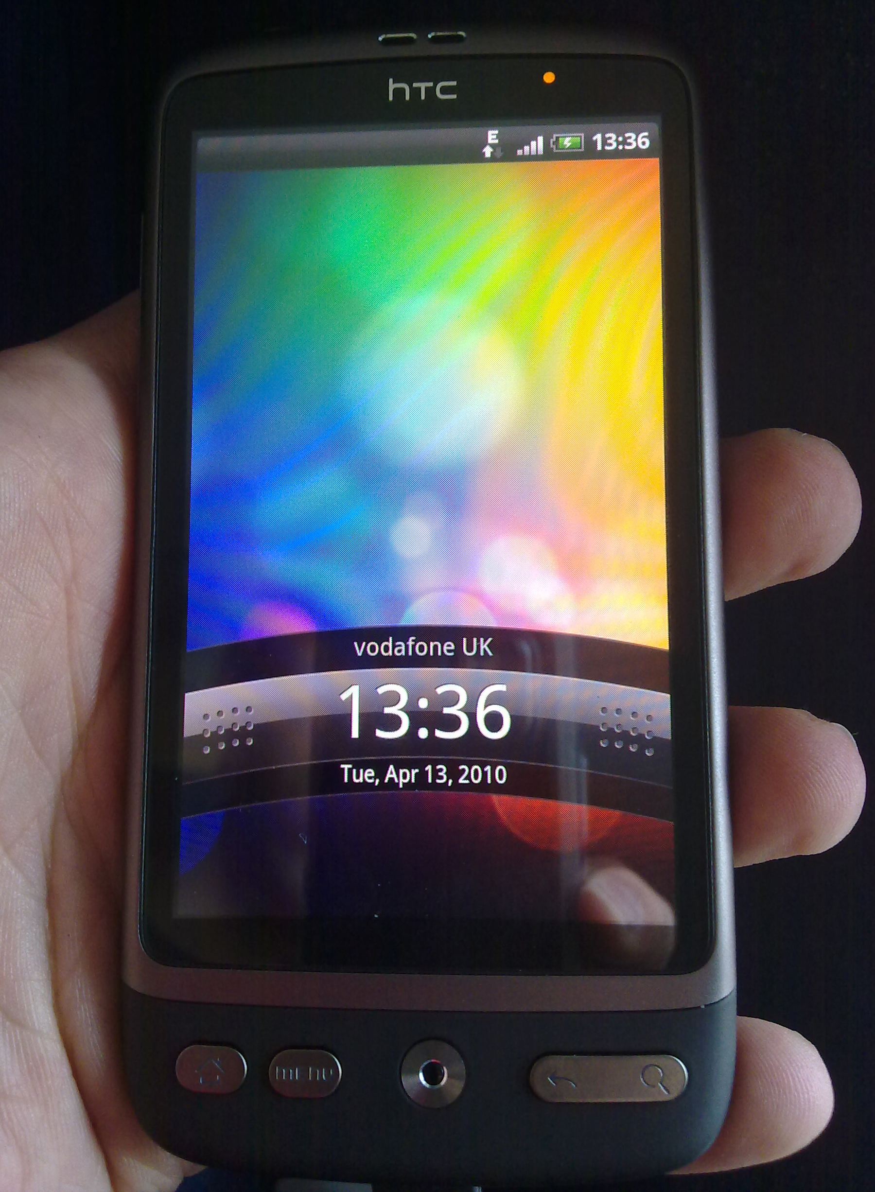 Beautiful screen on the HTC desire